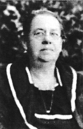 The anarchist teacher Malvina Tavares (1866-1939), founder of the Escola Moderna libertary Moviment in southern Brazil region.